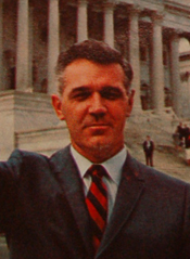 former congressman Richard Fulton of Tennessee.